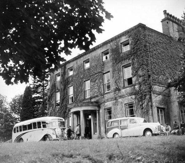 Brathay Hall - archive